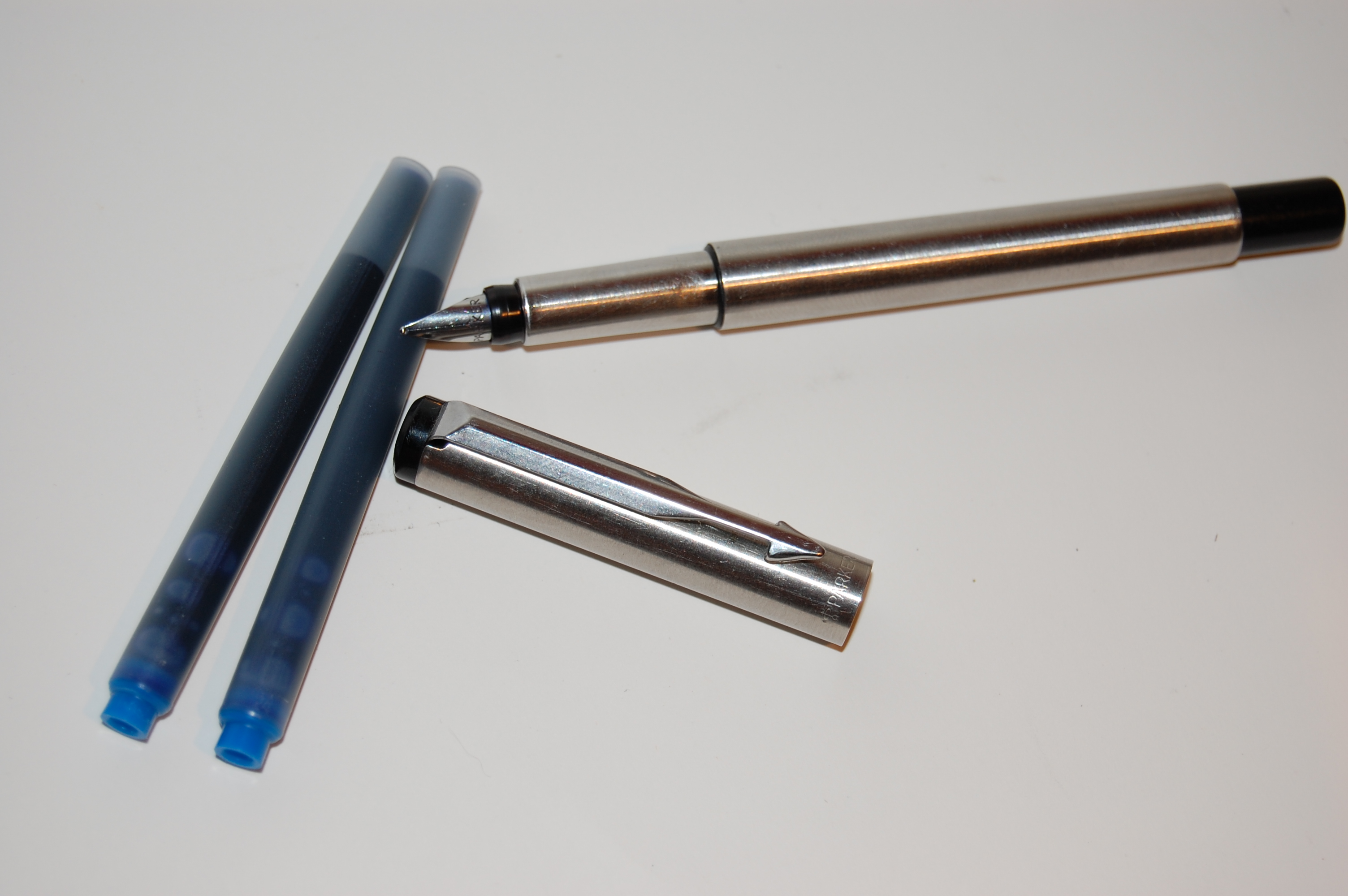 A Vector fountain pen with proprietary Quink cartridges containing approximately 1.4 ml ink by Parker